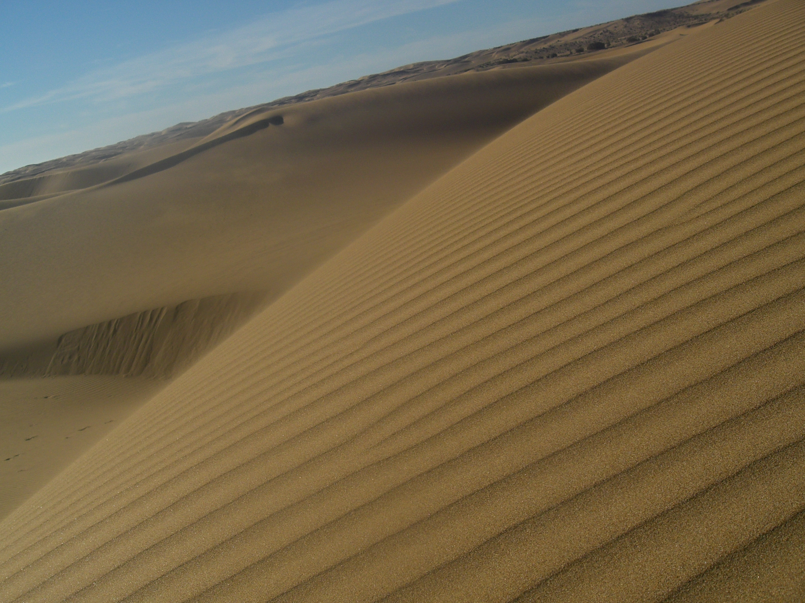 Desert dunes